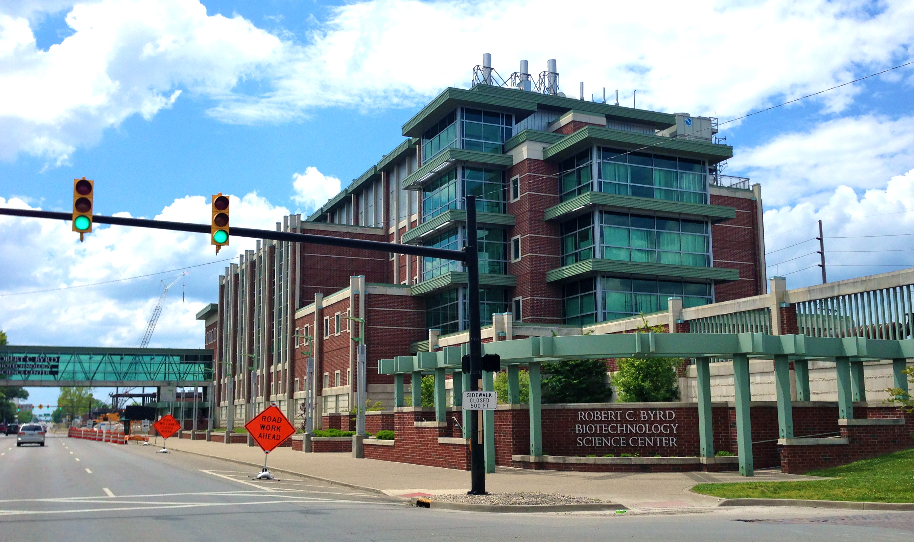 The Robert C. Byrd Biotechnology Science Center in May of 2013. The Weisberg Family Applied Engineering Complex is under construction in the background.